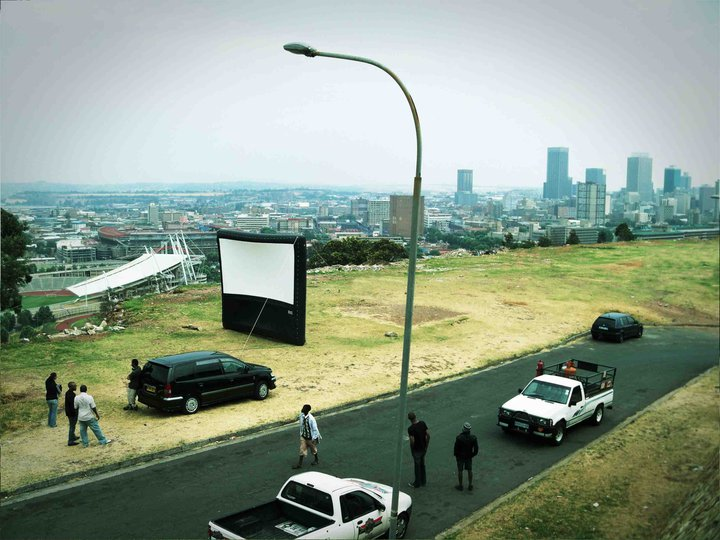 AIRSCREEN inflatable movie screen in South Africa